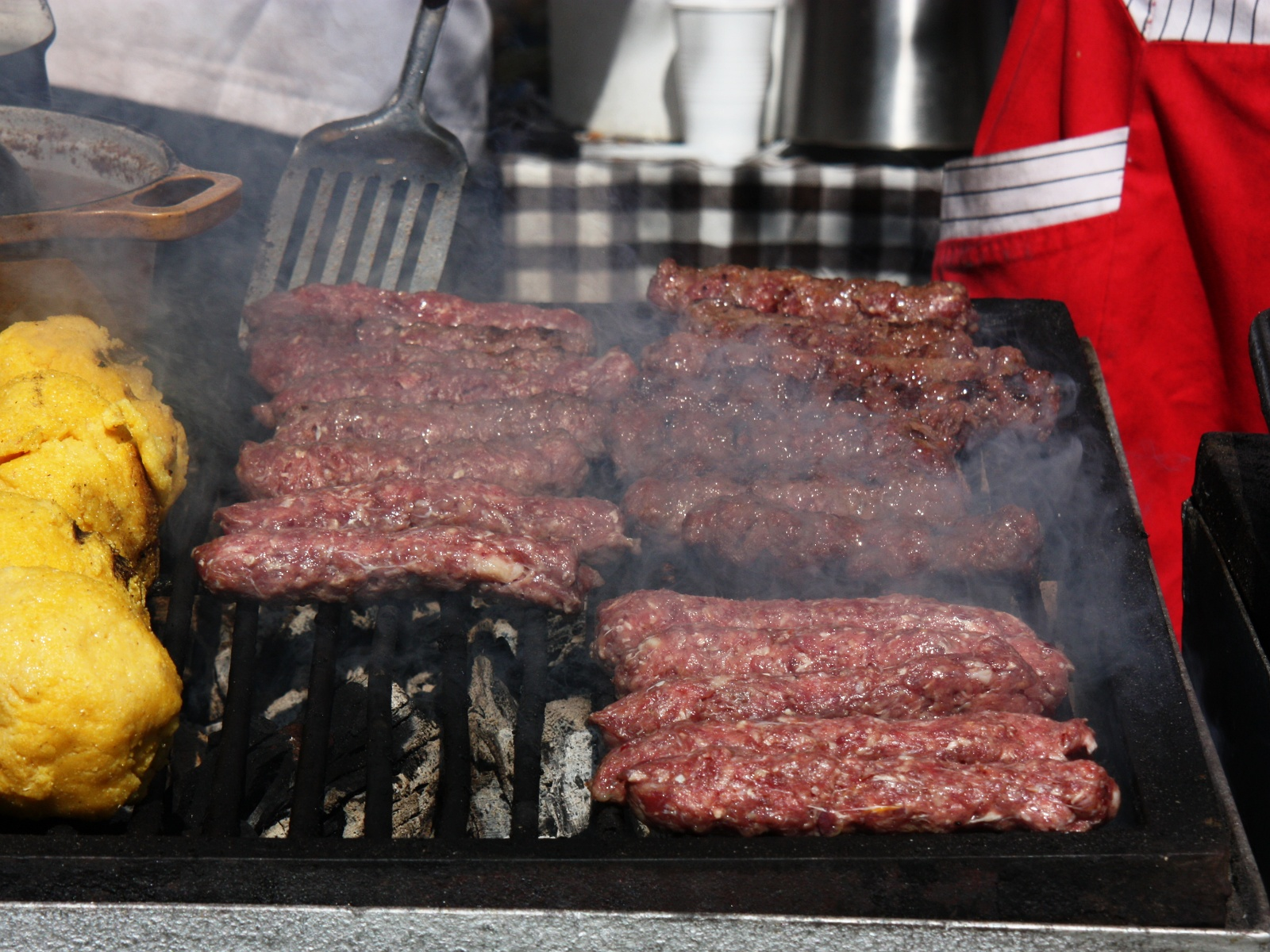 A traditional Romanian food: Mititei on the grill